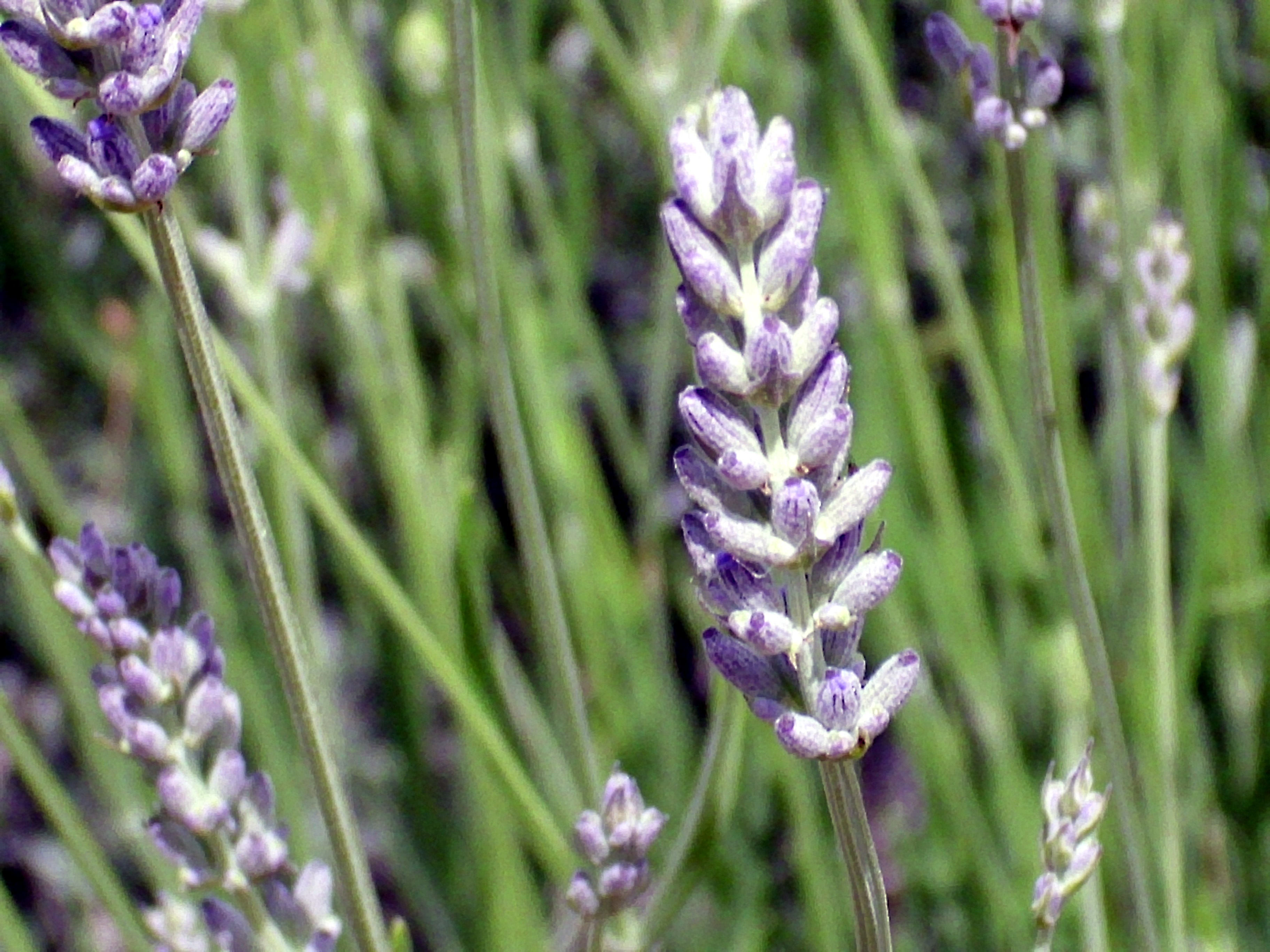 Lavandula latifolia inflorescence close up, Dehesa Boyal de Puertollano, Spain